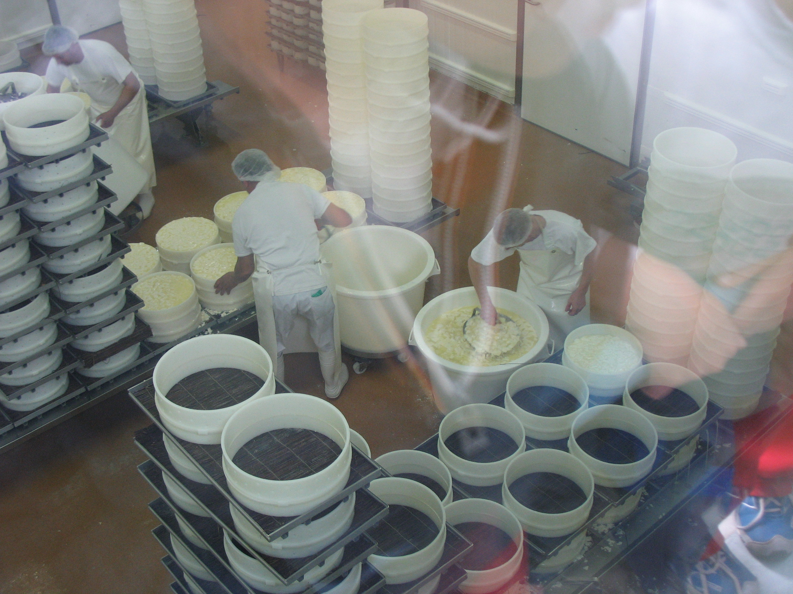 Processing of Brie cheese in a cheese factory.